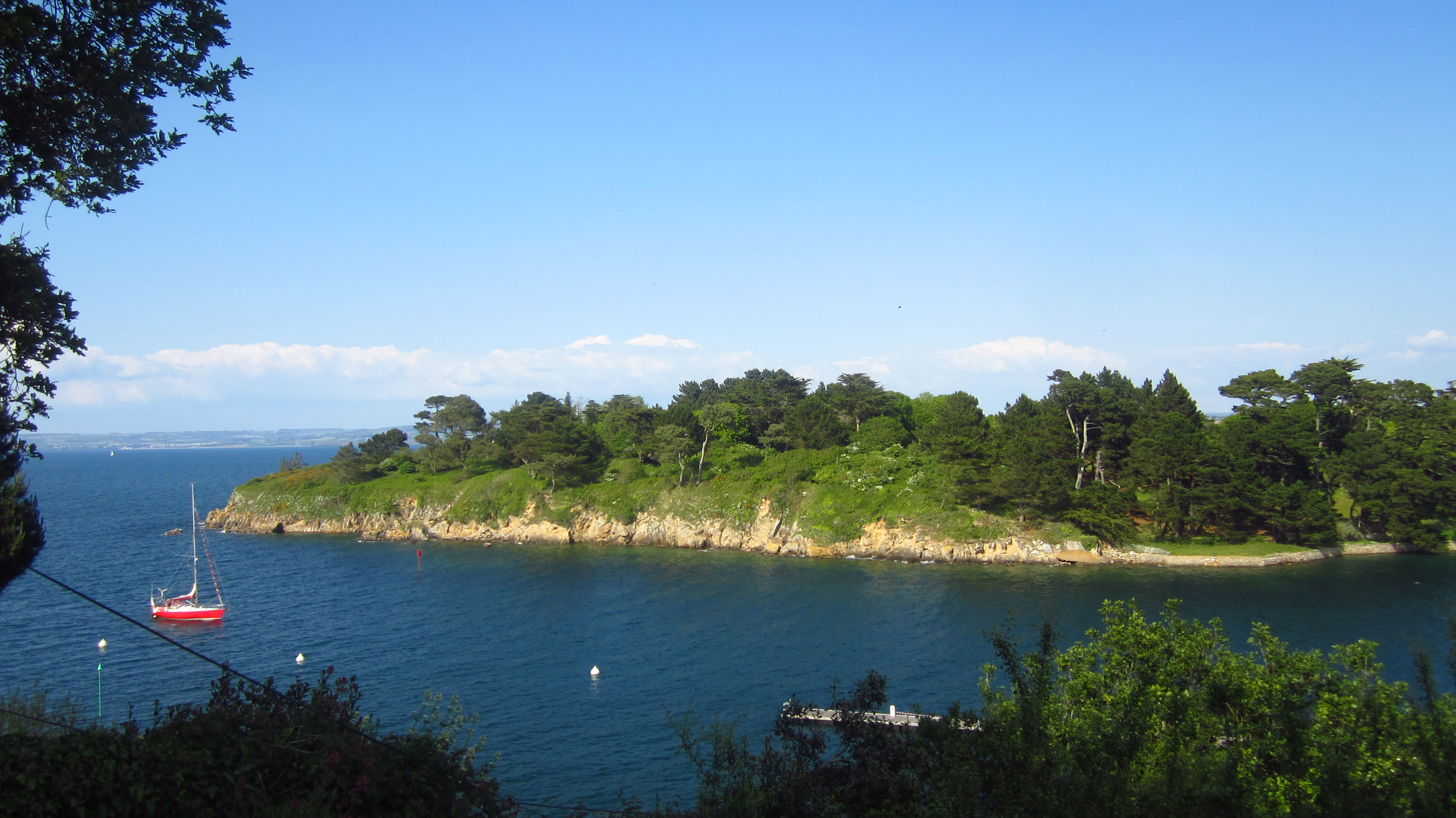 Tristan Island from Tréboul